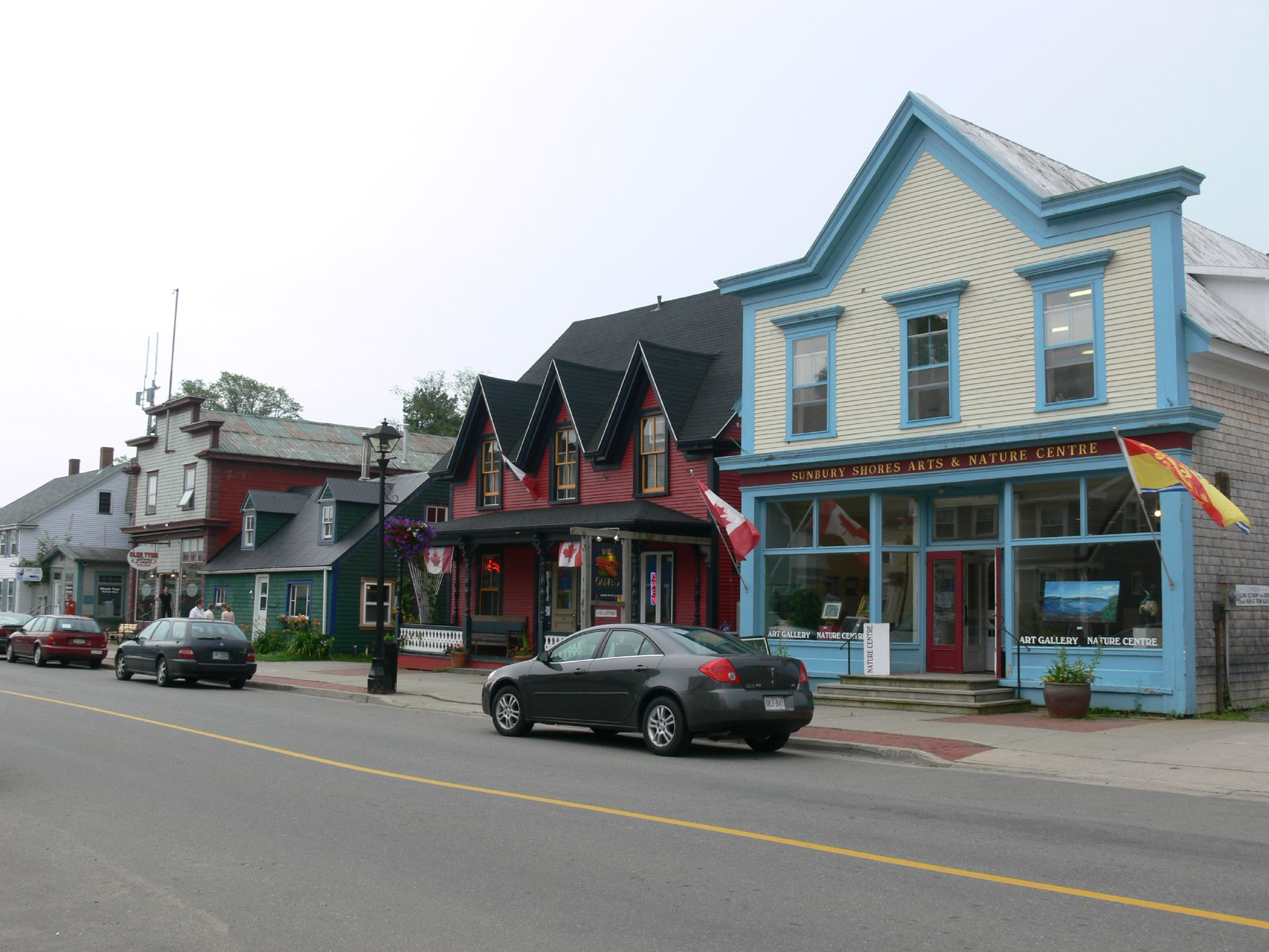 Downtown Saint Andrews.